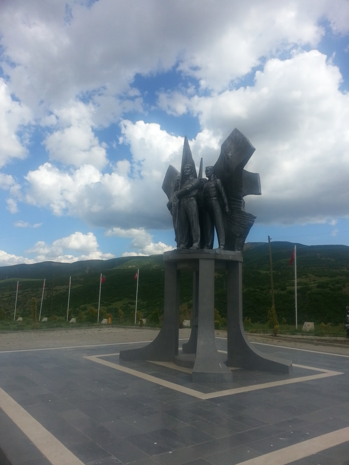 33 Şehit Anıtı, Elazığ-Bingöl karayolu.